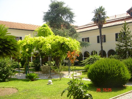 The court of the monastery on Saint Lazarus Island near Venezia, Italy